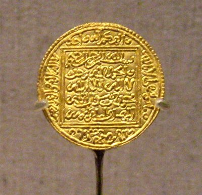 North Africa or Spain Dinar, 1184-99 Coin, Gold, Diameter: 1 1/8 in. (2.86 cm); Weight: 0.16 (4.59 g) Purchased with funds provided by the Joan Palevsky Bequest (M.2006.143.14) Wikipedia Loves Art at the Los Angeles County Museum of Art This photo of item # M.2006.143.14 at the Los Angeles County Museum of Art was contributed under the team name "artifacts" as part of the Wikipedia Loves Art project in February 2009. Los Angeles County Museum of Art The original photograph on Flickr was taken by Beesnest McClain—please add a comment to the original Flickr page whenever a use has been made on Wikipedia or another project. Project galleries on Flickr: this institution, this team